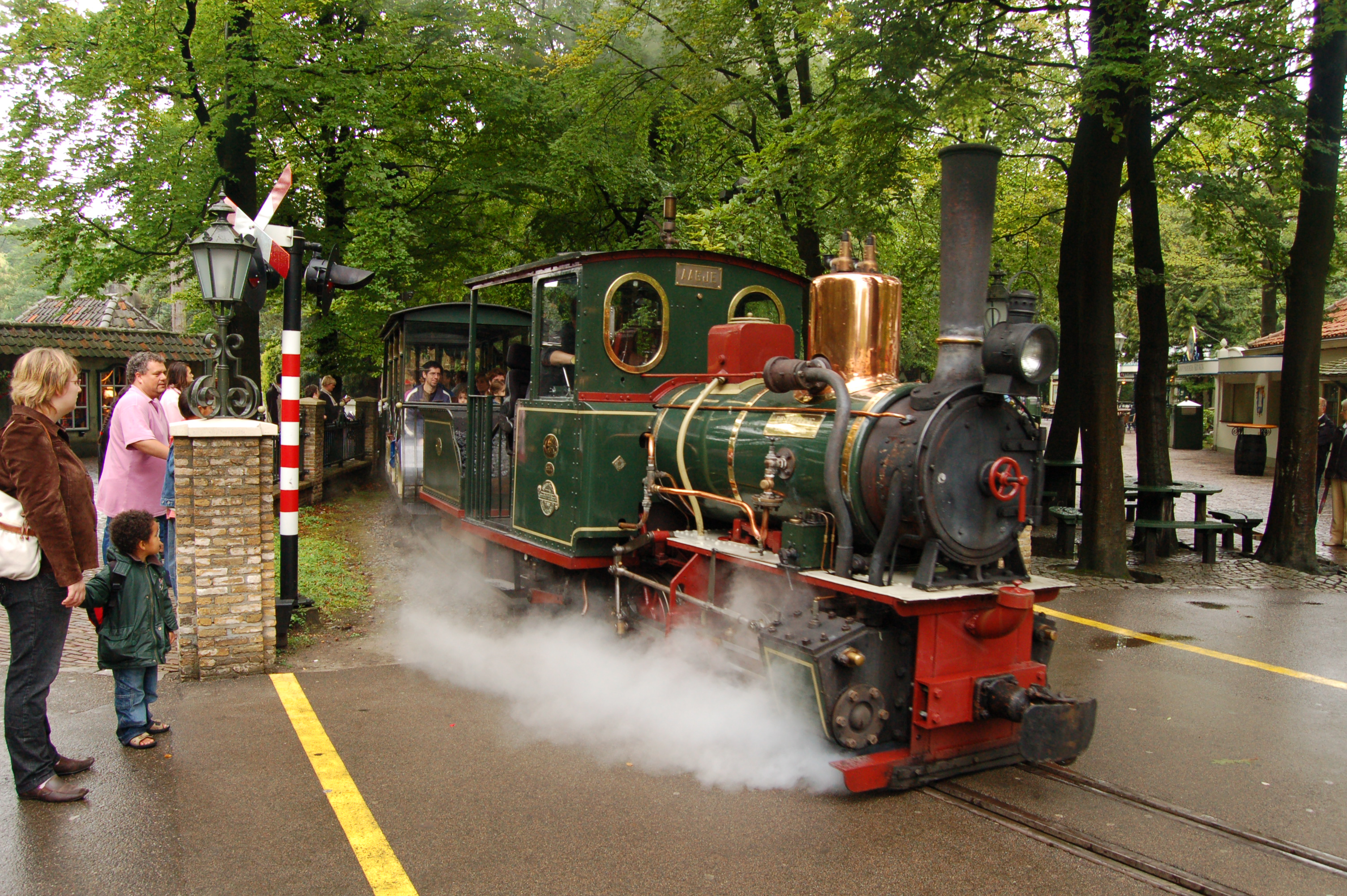 Locomotive Aagje of the Efteling Steamtrain at a level crossing in the Efteling theme park.